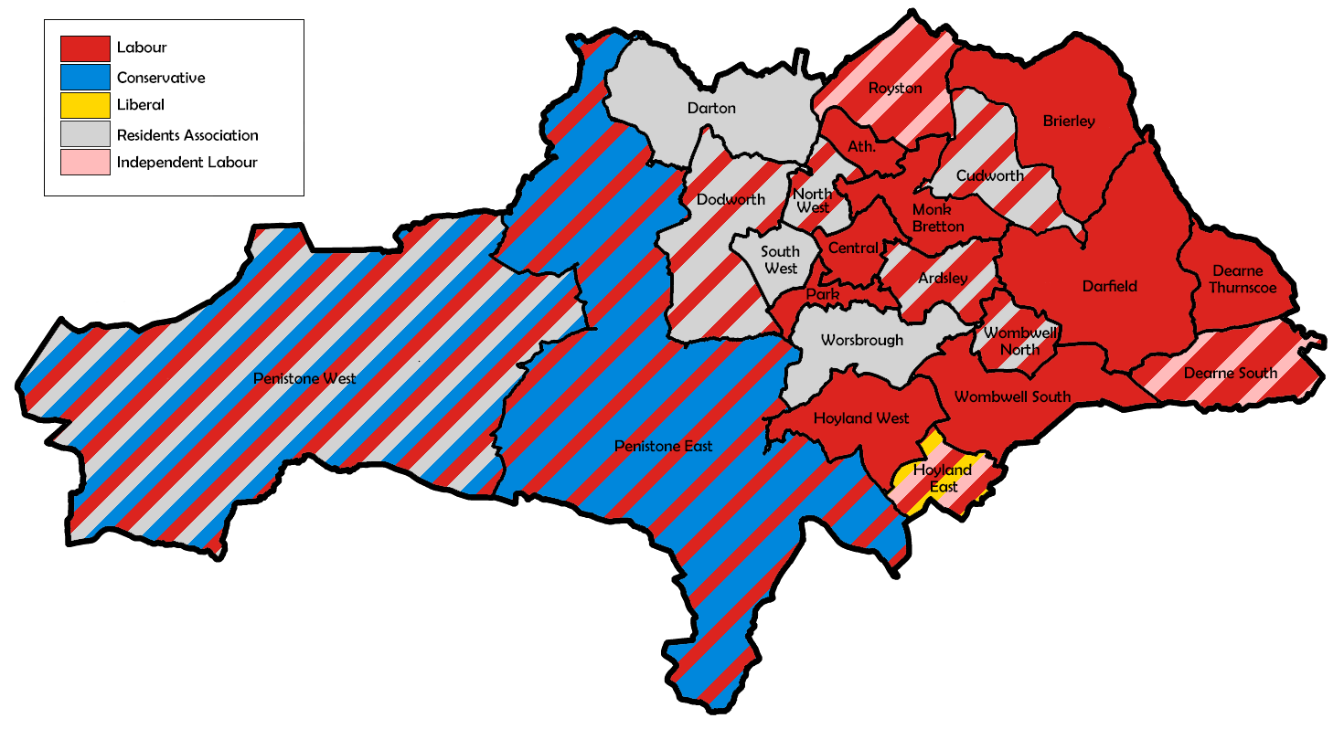 Ward map of Barnsley council with political colouring for the 1979 election. Striped wards denote mixed representation, with thicker stripes two seats to one.